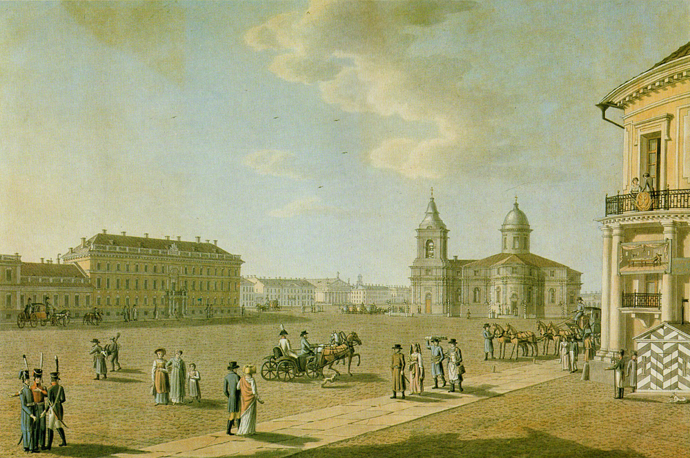 St. Isaac's Square at the beginning of the XIX century.label QS:Lru,"Исаакиевская площадь в начале XIX века." label QS:Len,"St. Isaac's Square at the beginning of the XIX century."